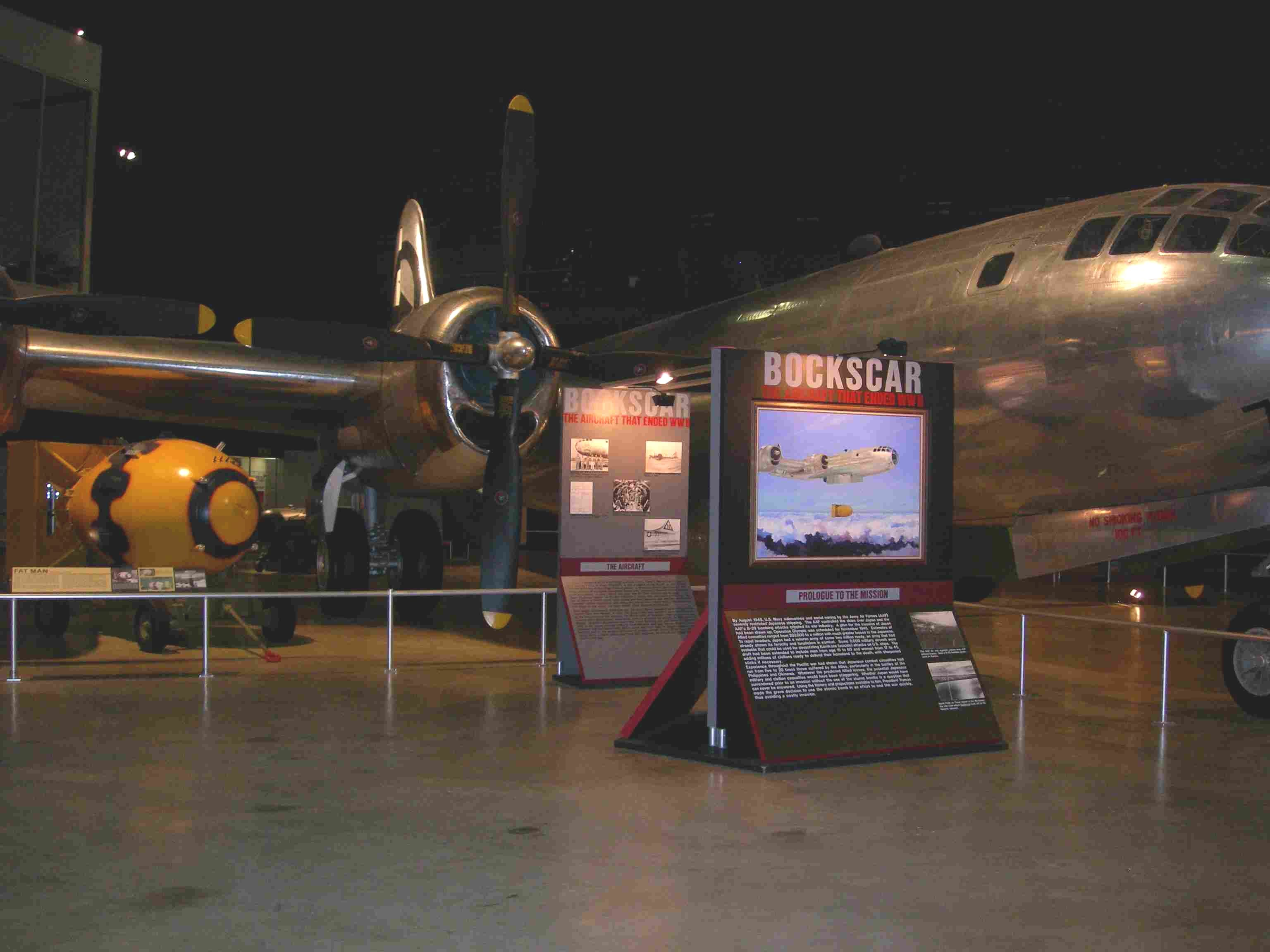 B-29 Bockscar and a replica of Fat Man, on display at the National Museum of the United States Air Force